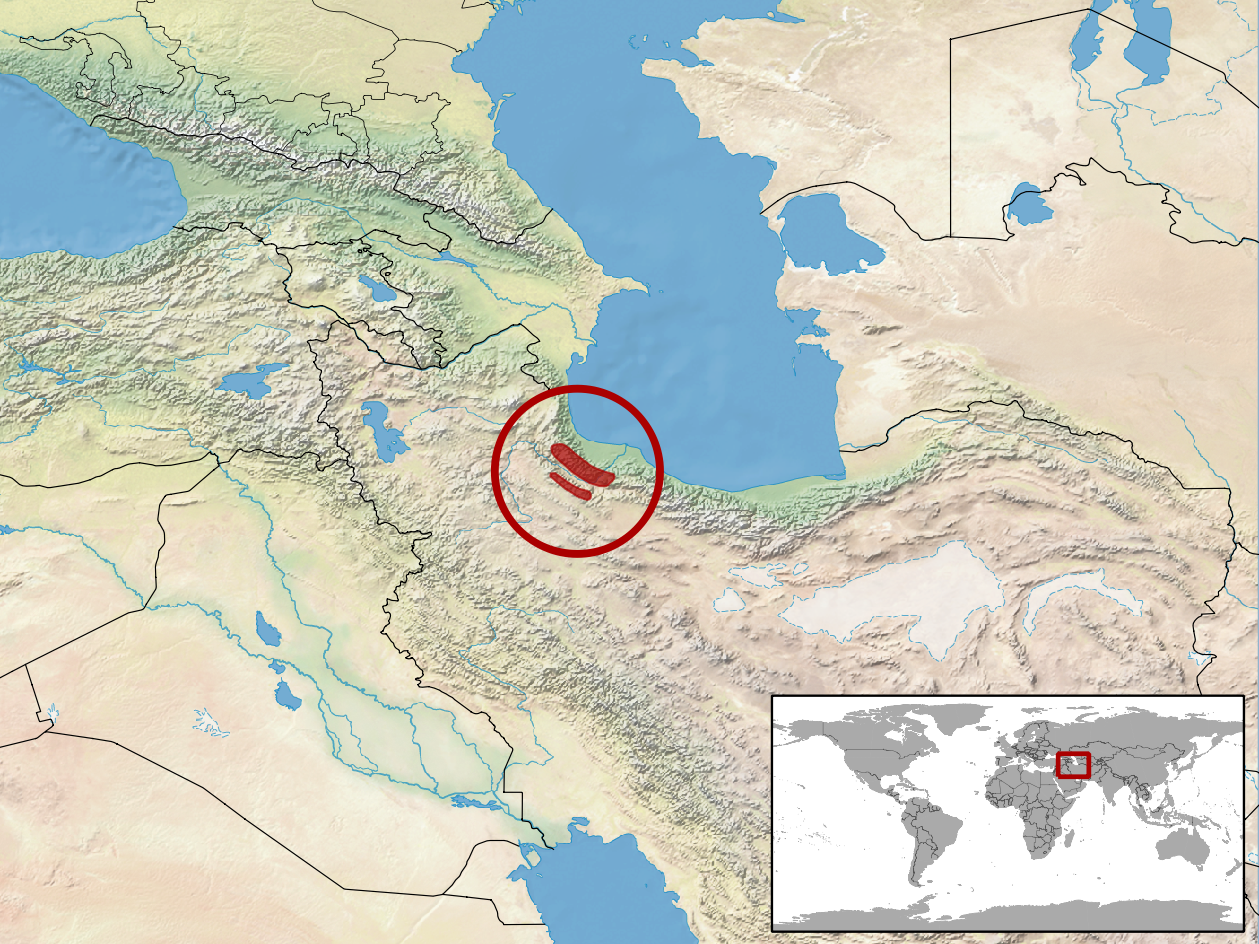 geographic distribution of Montivipera albicornuta syn Montivipera raddei albicornuta (Native: Iran, Islamic Republic of)